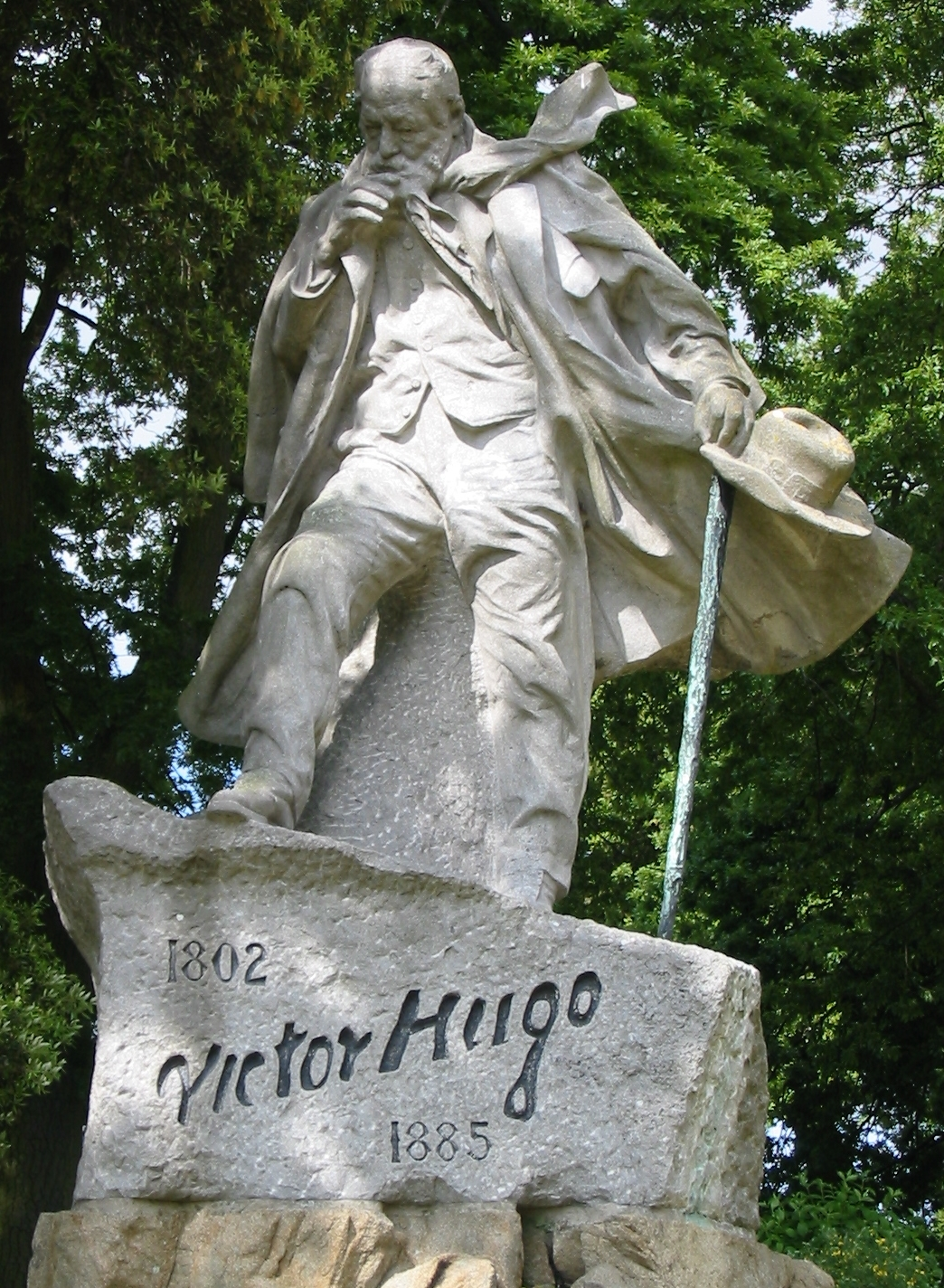 Statue of Victor Hugo by Jean Boucher (1870-1939) in Candie Gardens, Guernsey